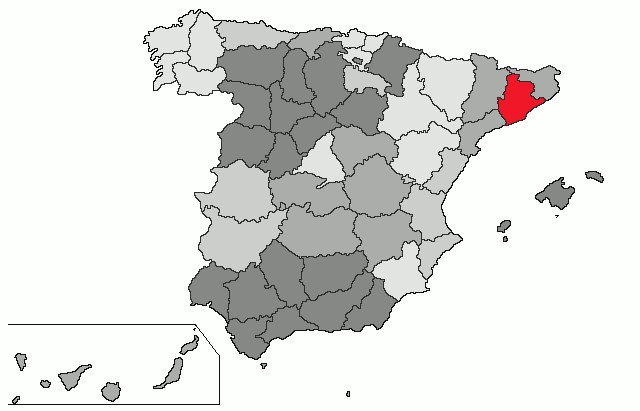 ES: Provincia de Barcelona EN: Province of Barcelona Based in: Image:ProvPont.jpg Source: Designed by Leoplus. Original picture, designed by Sobreira.